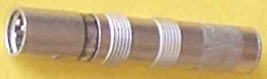 passive DI box